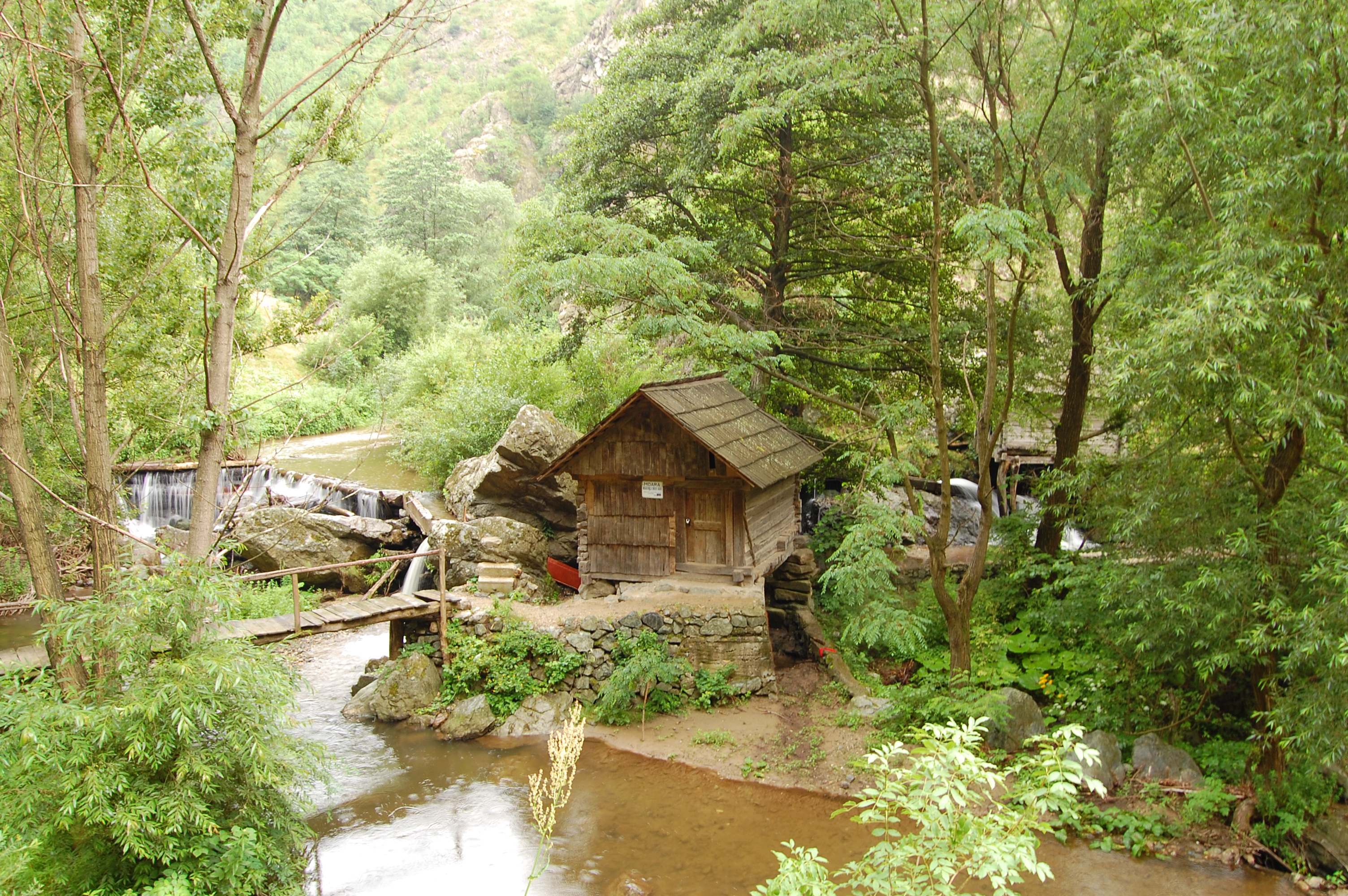 horizontal watermill on the Rudăria creek near Eftimie Murgu village, Caraș-Severin County, Romania